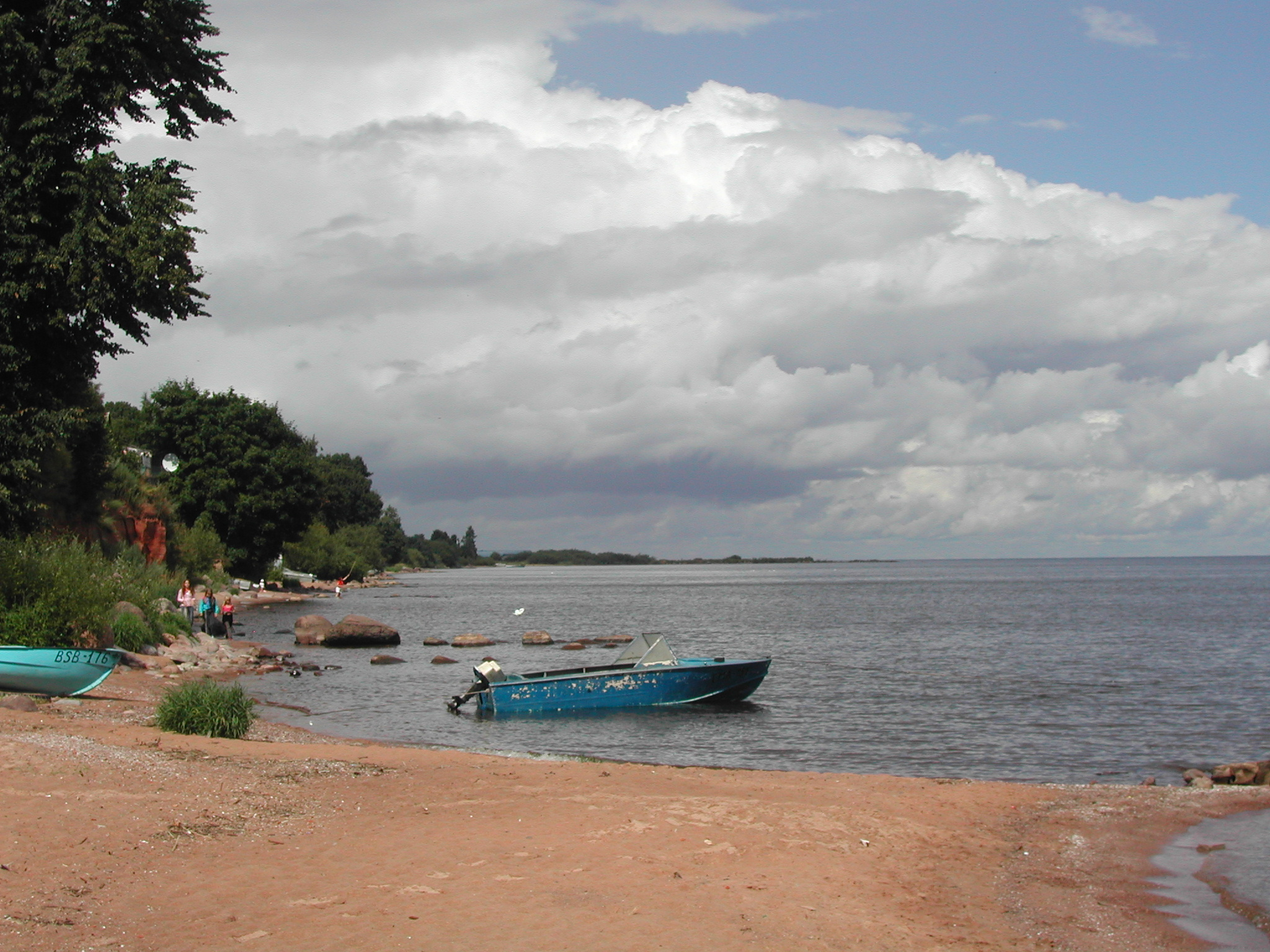 Lake Peipus at the town Kallaste, Estonia